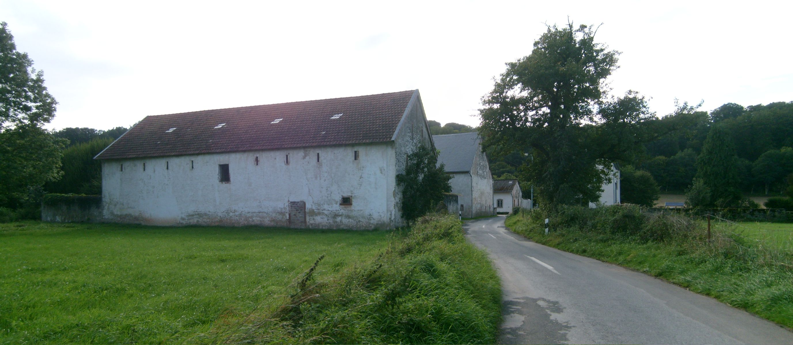 The village of Grentzingen, Luxembourg.